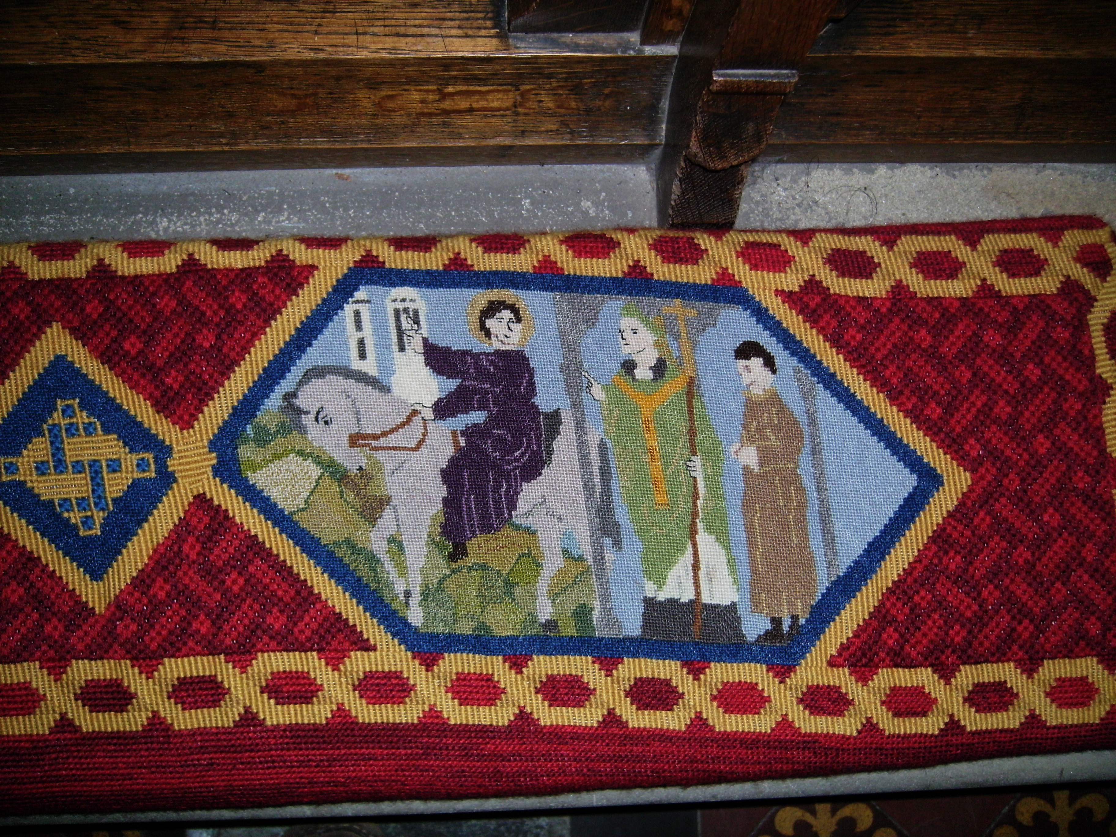 St Chad commanded to use a horse by St Thodore. Embroidered kneeler in St Mary and St Chad church, Brewood, Staffordshire, England. Modern.